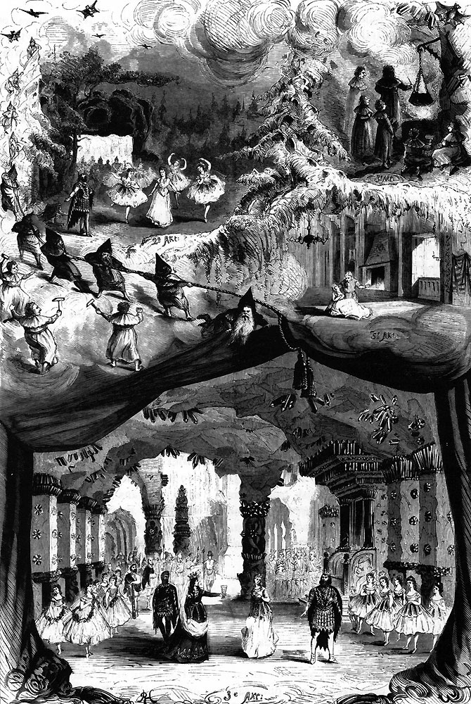 Scene from the 1874 premiere of Ivar Hallström's opera Den bergtagna